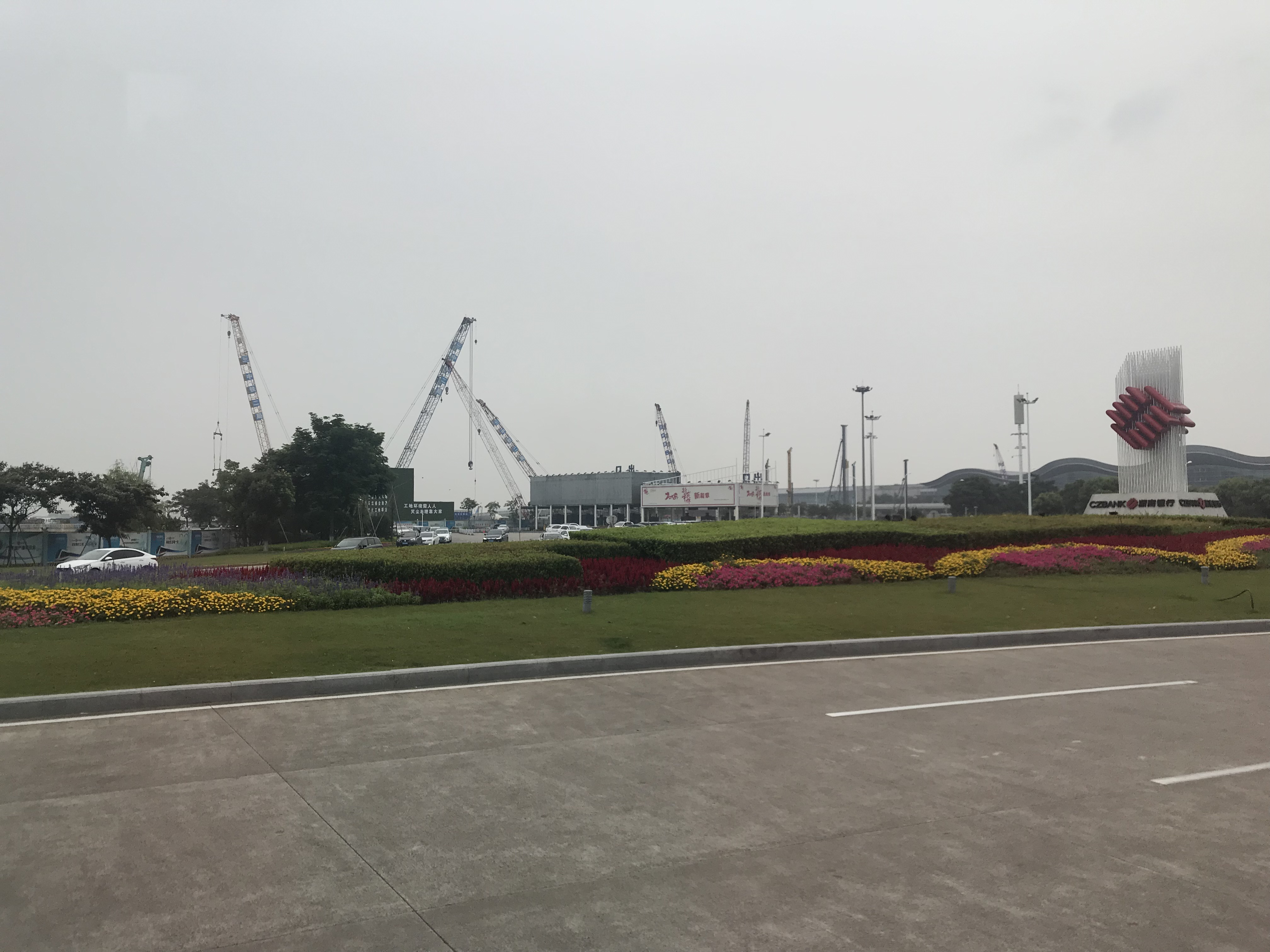 201806 Metro Construction at HGH